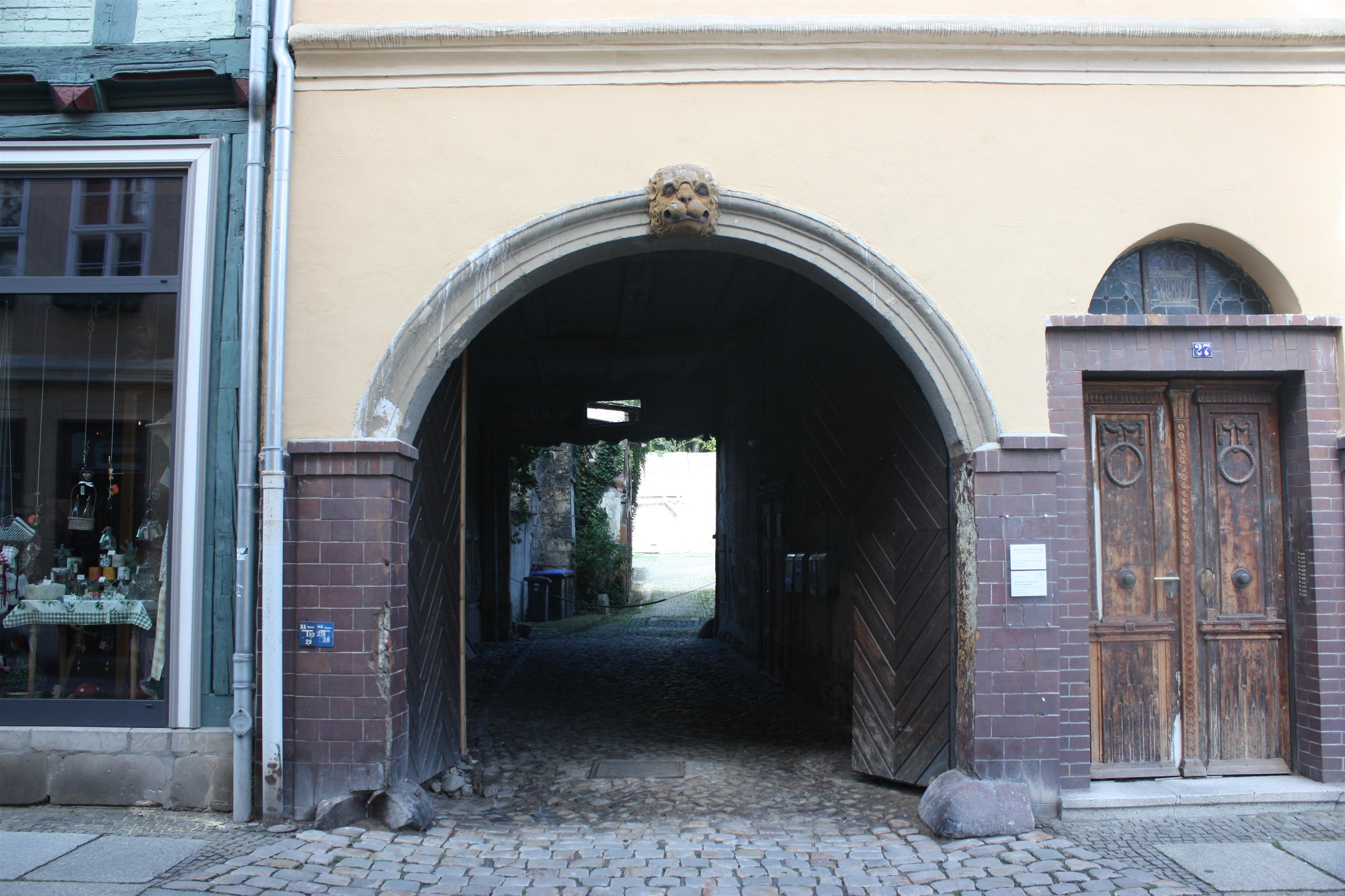 This is a photograph of an architectural monument.It is on the list of cultural monuments of Quedlinburg Hohe Straße 27